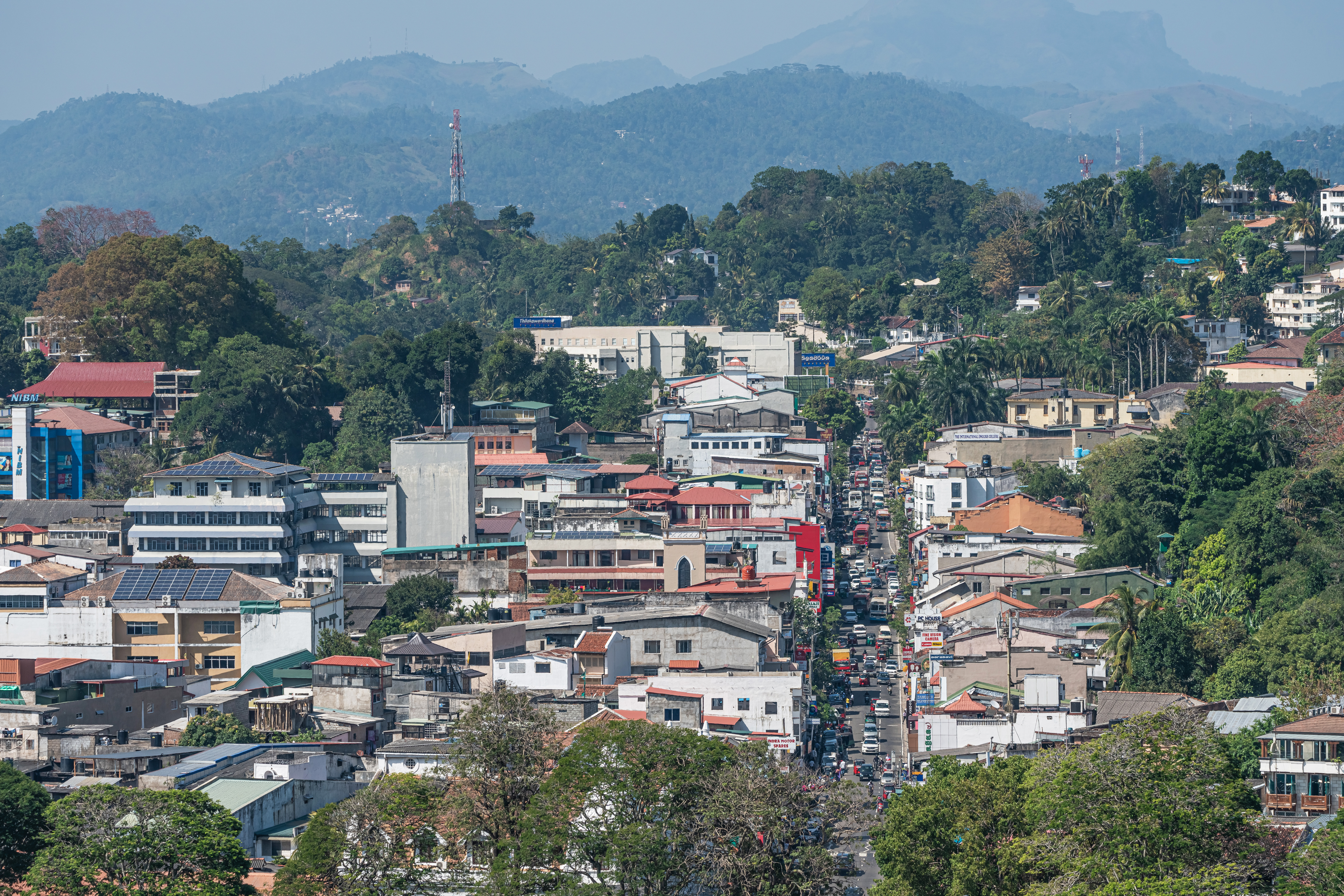 View from Arthur's Seat viewpoint in Kandy, Sri Lanka